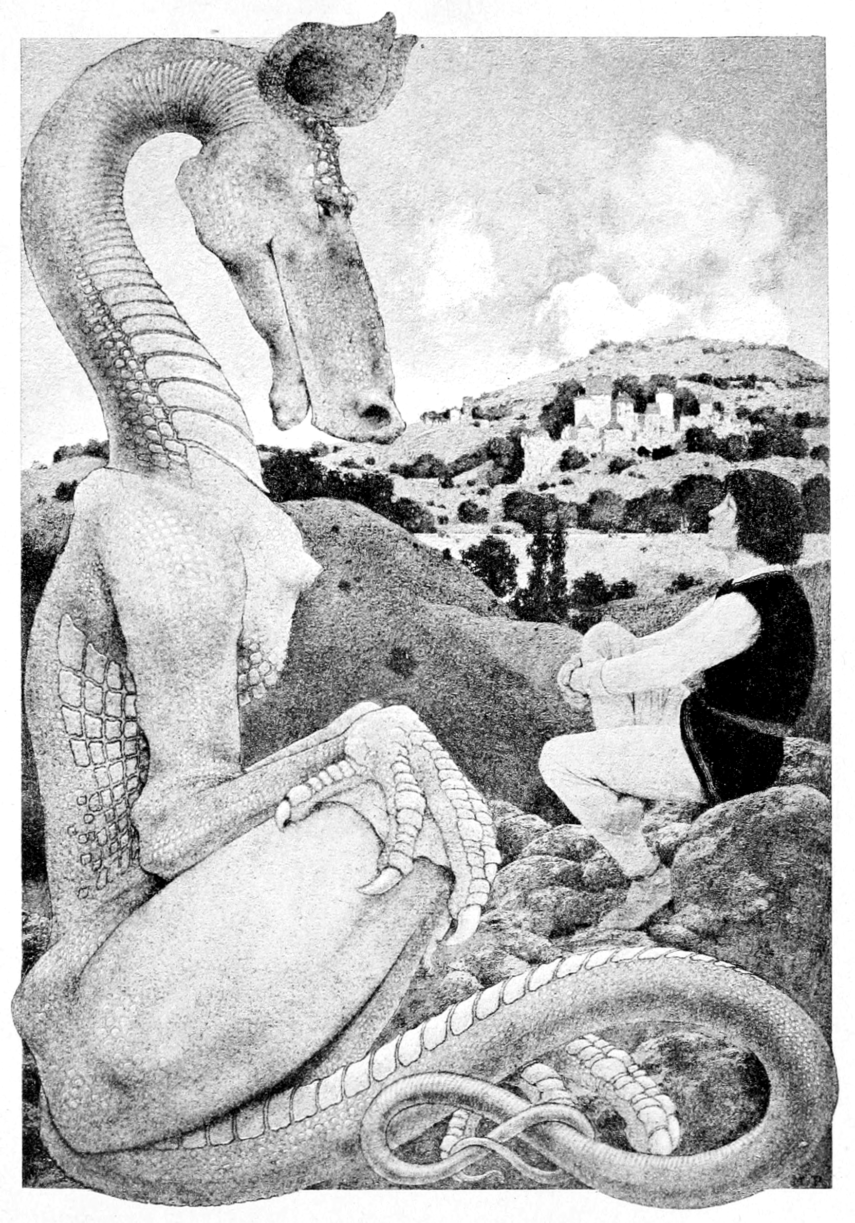 Illustration from Dream Days. London: John Lane; New York: The Bodley Head. 1902 Conversion from jp2 to png, rotation, crop, black and white point adjust